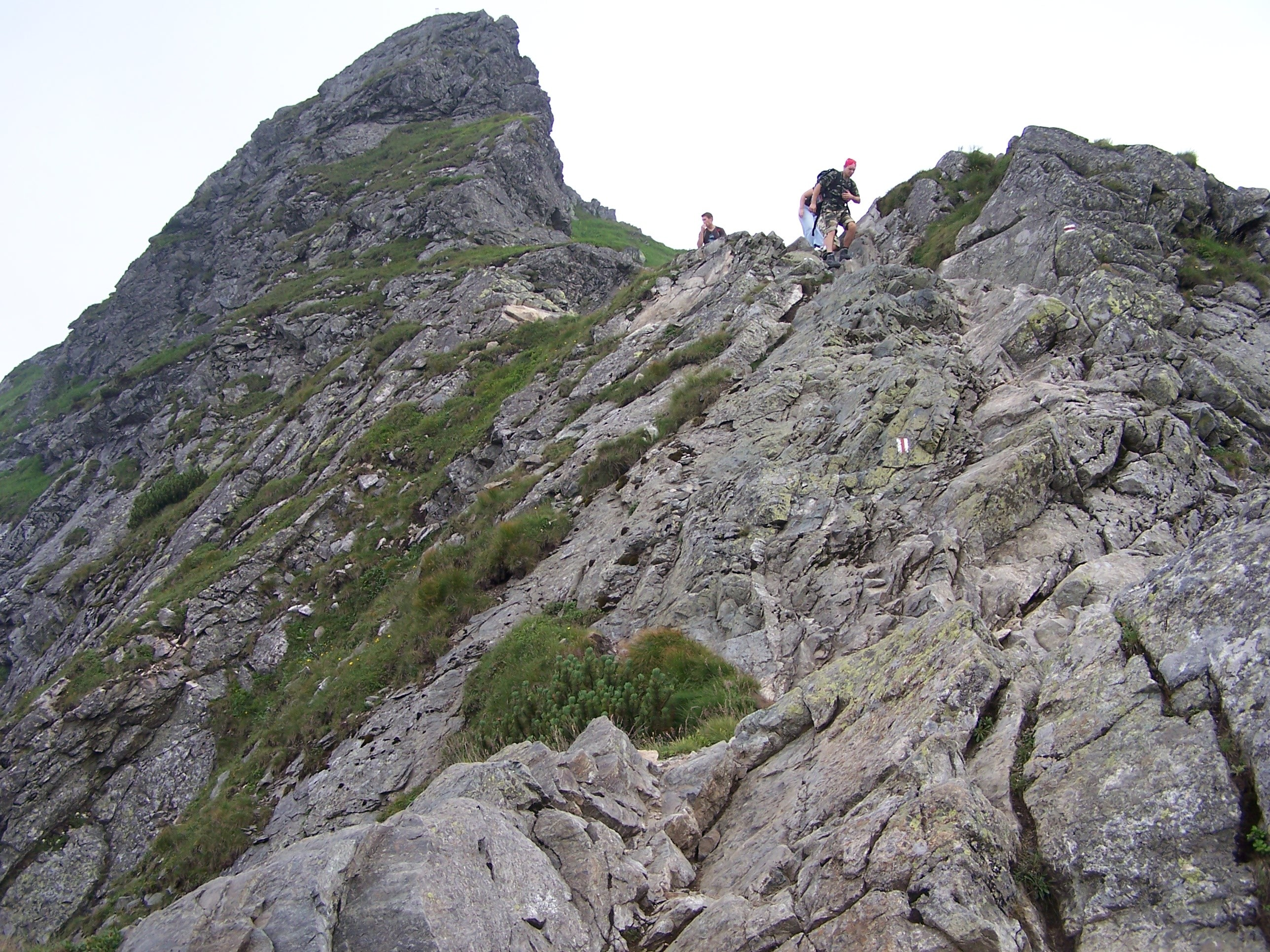 Suche Czuby (West Tatra Mountains)